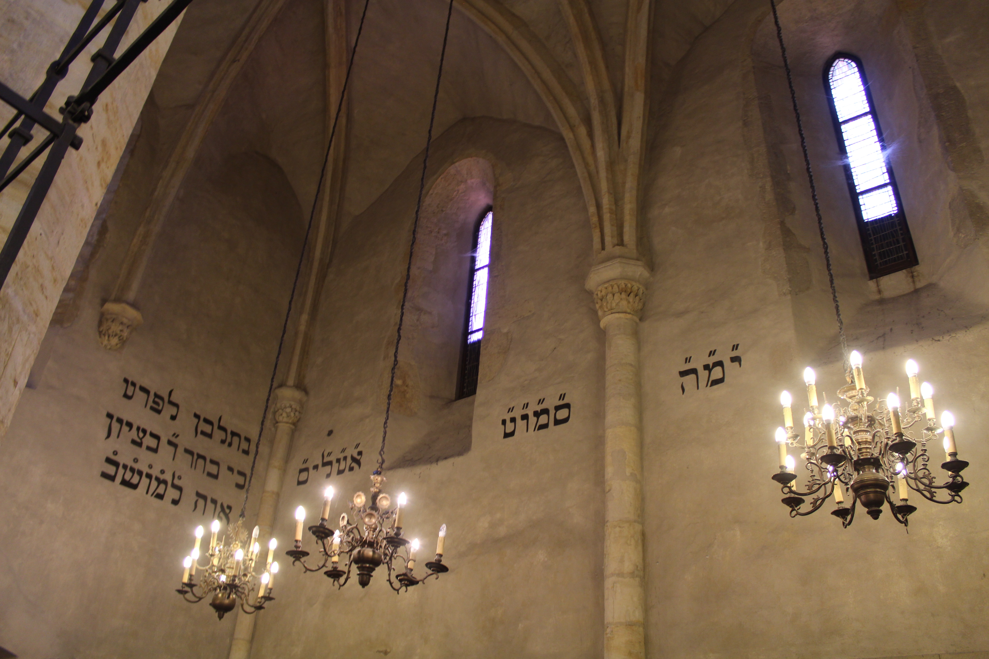 Interior of the Old New Synagogue (Altneuschul), Prague